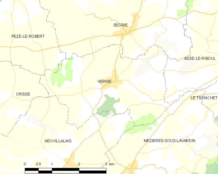 Map of French municipality